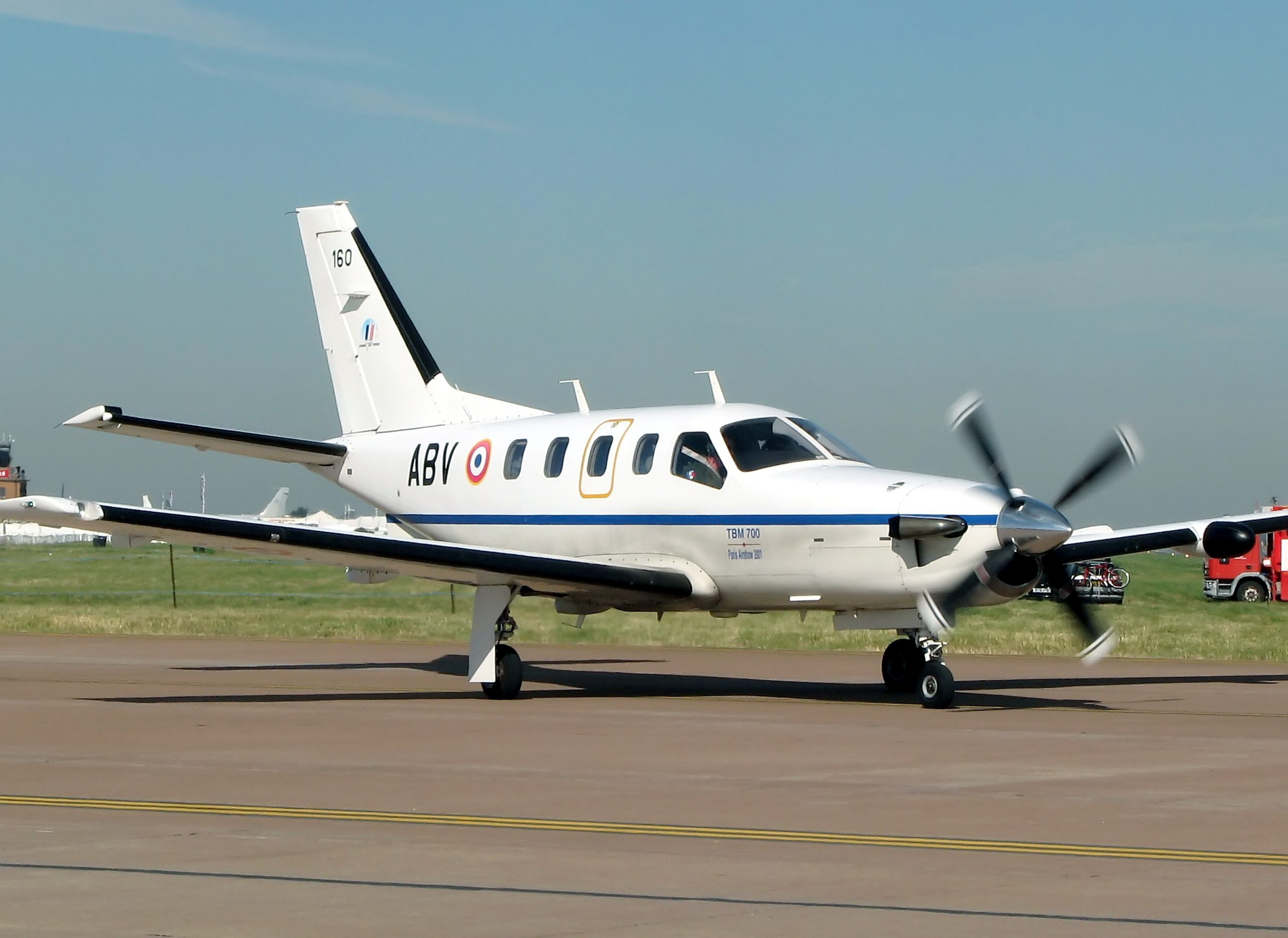 Socata TBM 700 (identifier 160/ABV) of French Army Light Aviation taxiing at the Royal International Air Tattoo, Fairford, Gloucestershire, England. Photographed by Adrian Pingstone on July 17th 2006 and released to the public domain.